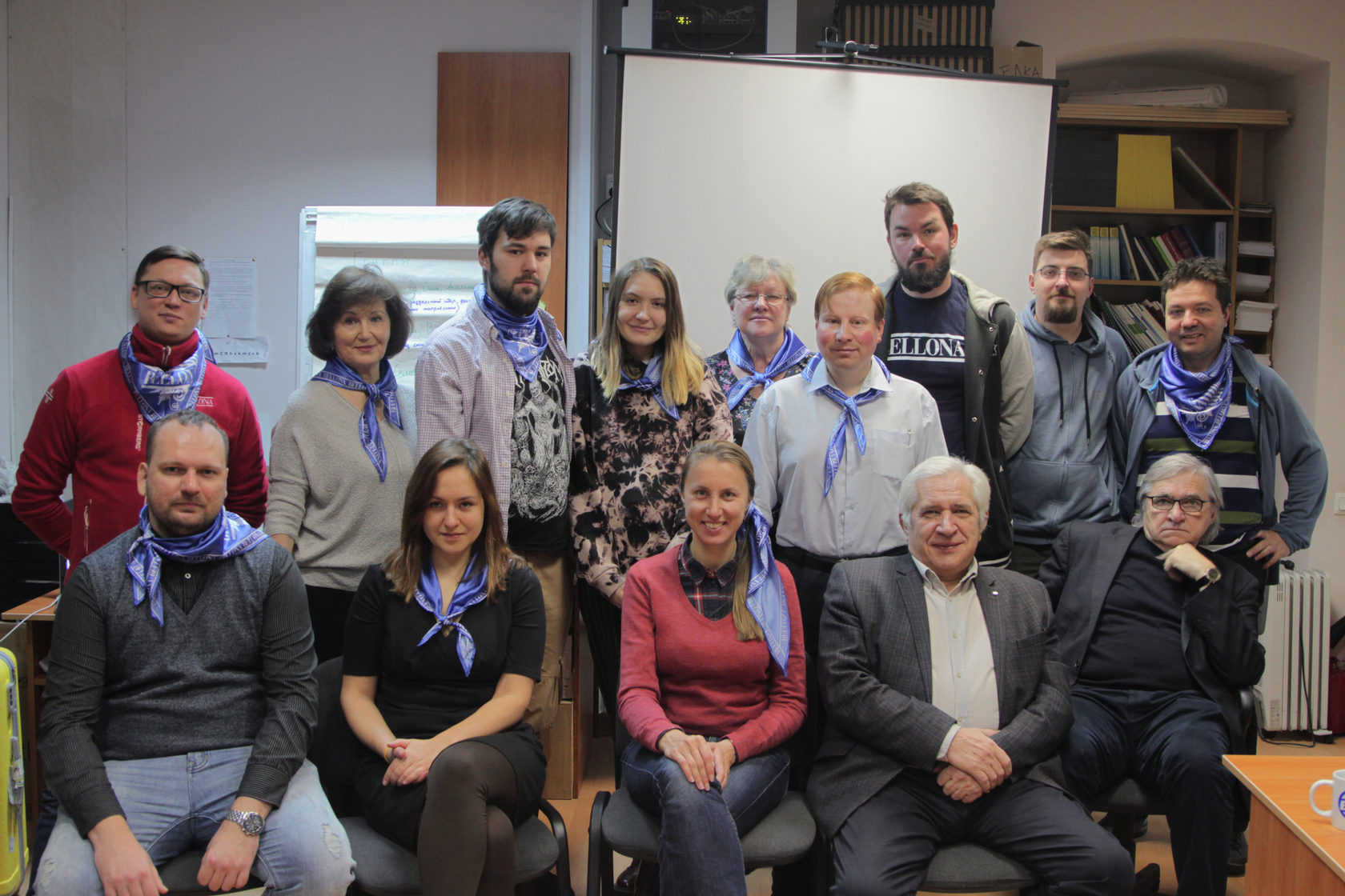 Коллективы ЭПЦ "Беллона" (Санкт-Петербург), АНО "Беллона" (Мурманск) и российского отделения Беллоны (Осло).